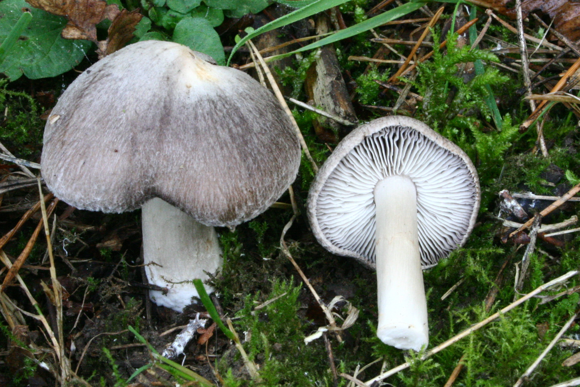 Tricholoma terreum in a park near Paris, France.